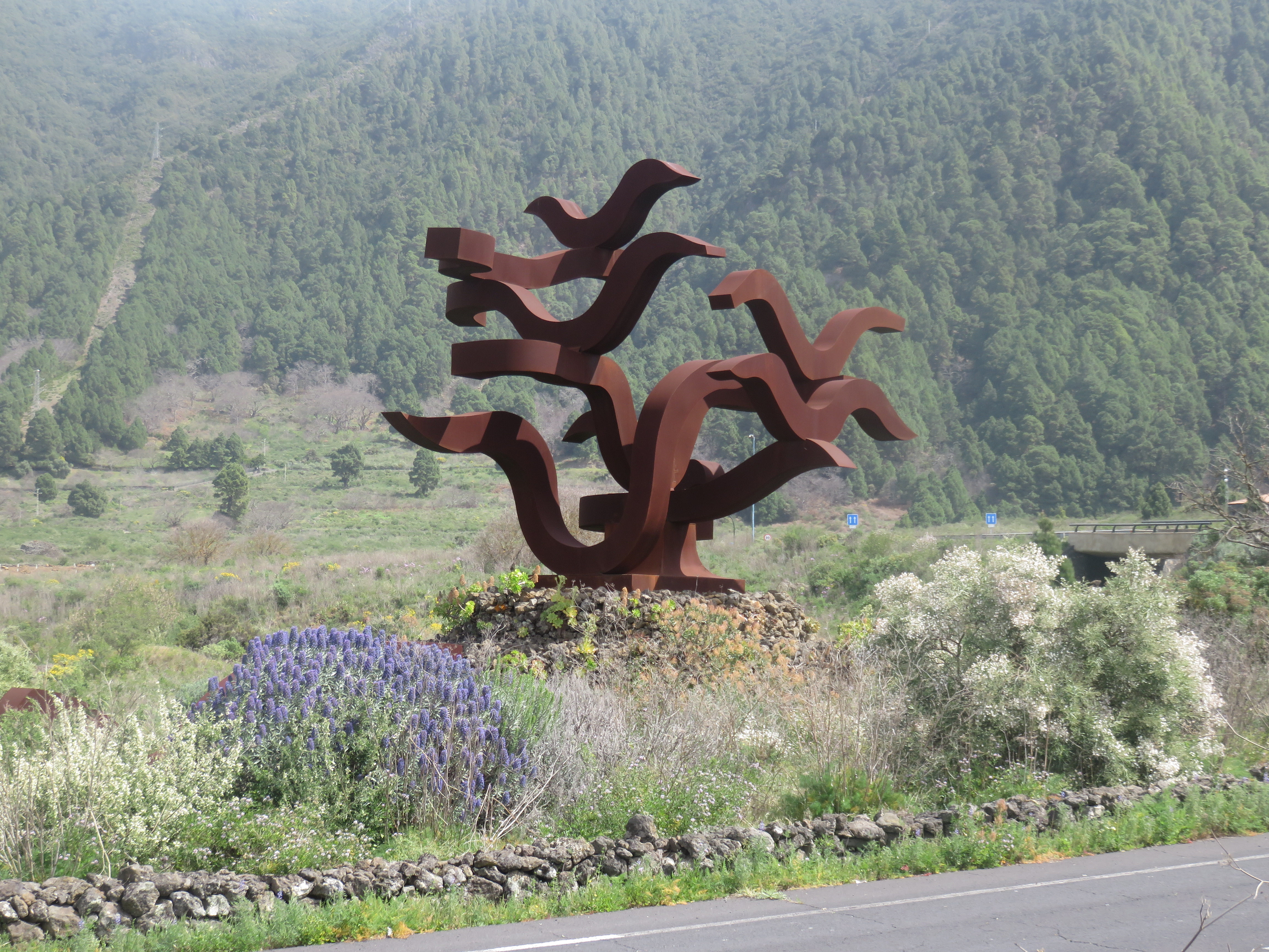 Monumento a la Naturaleza, the largest abstract work realized by Manuel Pereda de Castro on La Palma, between El Paso and the tunnel, which call the Palmeros Arbol de la Graja (crow tree).